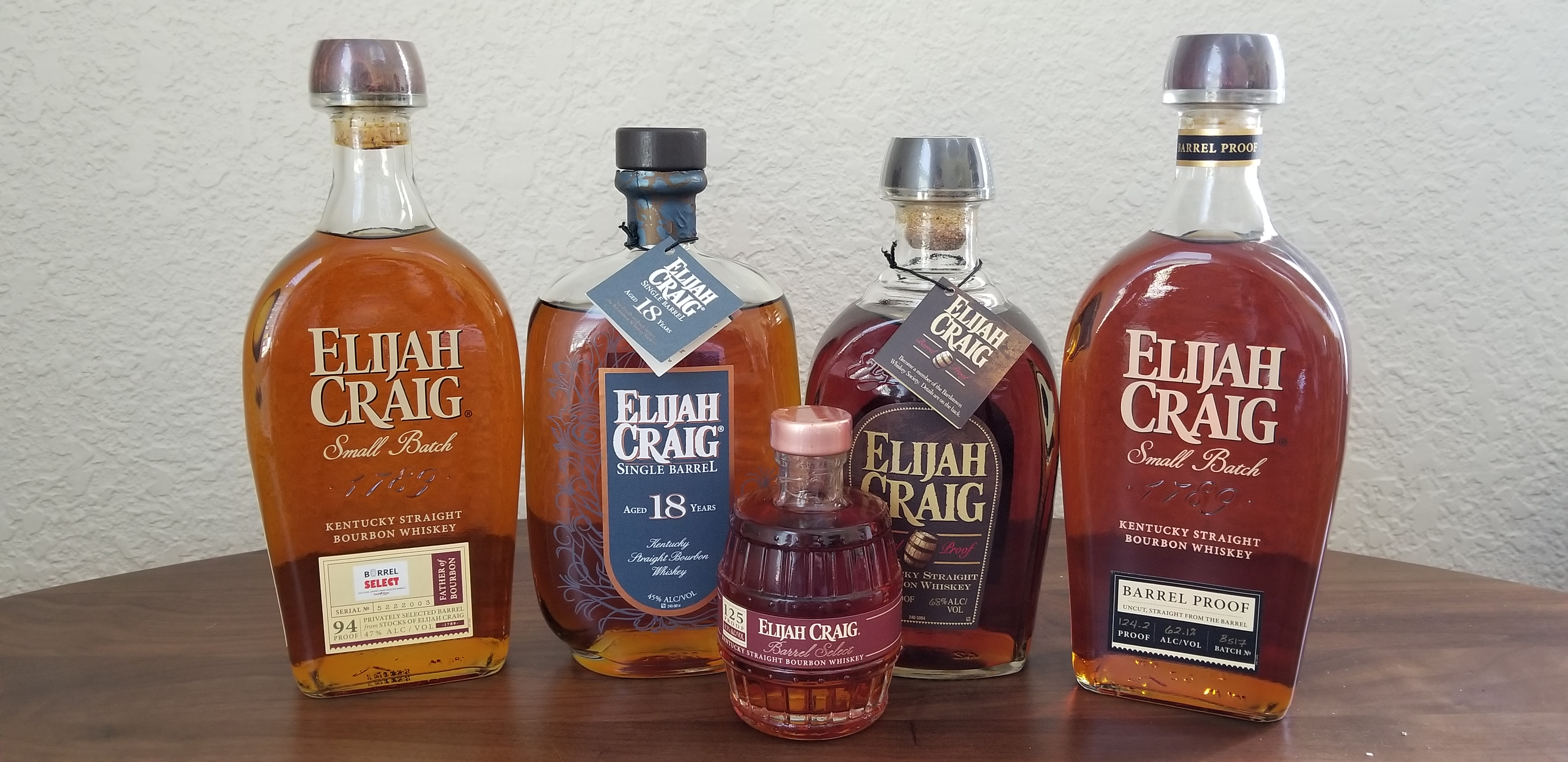 This photo shows the various offerings of the Elijah Craig label: Elijah Craig Small Batch (94 proof), Elijah Craig Single Barrel 18 Year Old, Elijah Craig Barrel Select, pre-2017 Elijah Craig Small Batch Barrel Proof, new label Elijah Craig Small Batch Barrel Proof